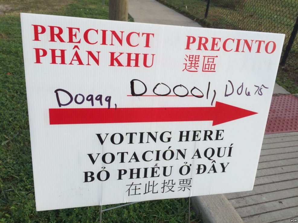 Signs in several languages indicate polling station locations in Harris County, Houston, Texas. (G. Tobias / VOA)